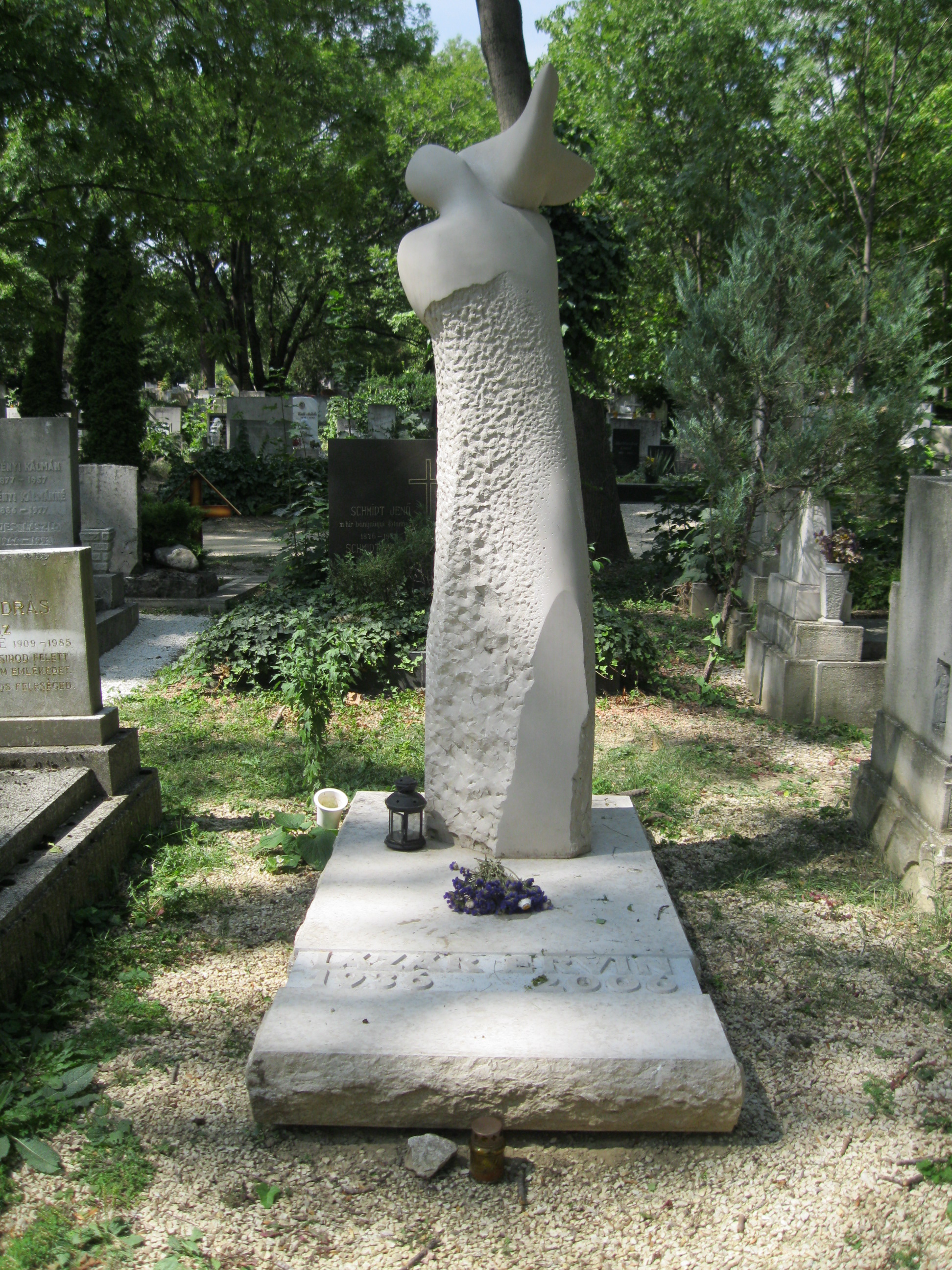 Tomb of Ervin Lázár in Farkasréti Cemetery. Sculptor: Róbert Csíkszentmihályi (2009). [7/6-1-88]